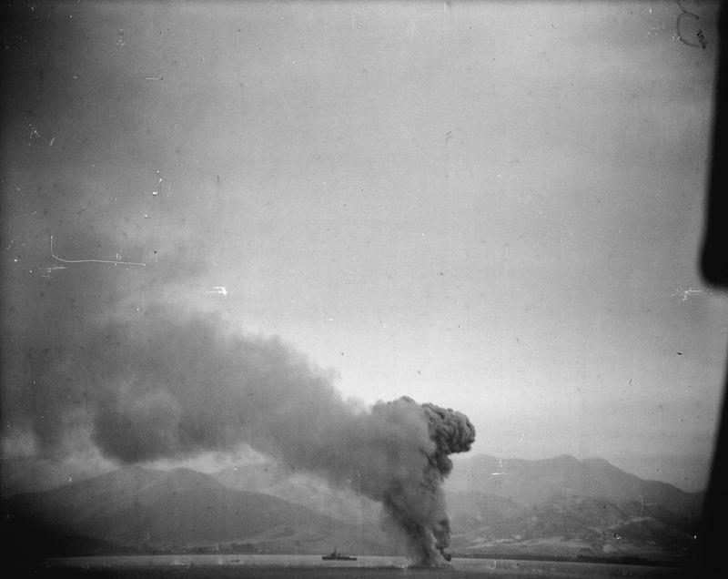 North Africa Operations. 12 November 1942, Bougie, Algeria. SS CATHAY explodes off Bougie, Algeria.